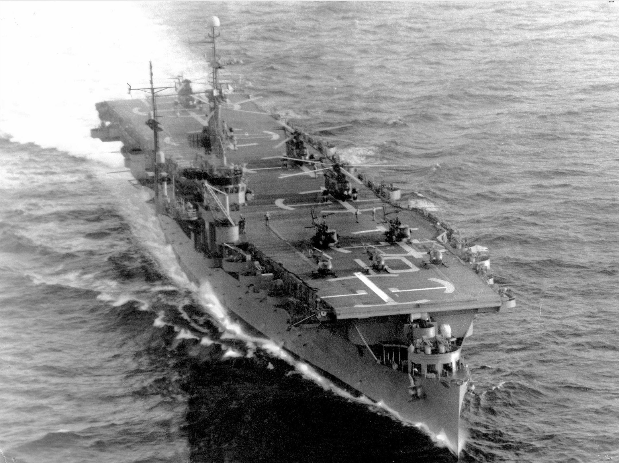 The Spanish aircraft carrier Dédalo (R01), in 1968. Visible on deck are three Sikorsky Sea King helicopters, two Bell 205 and three Bell 47.